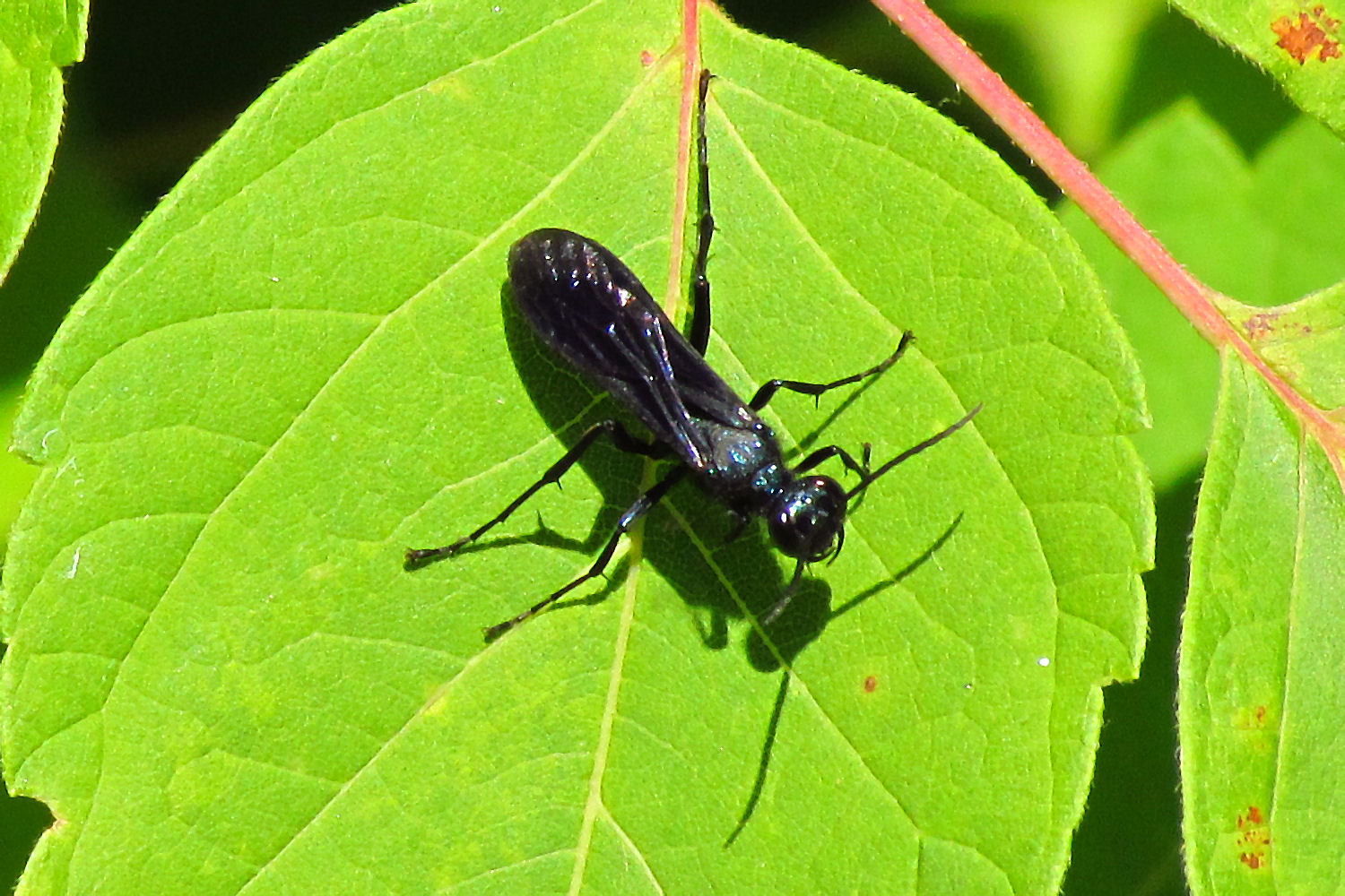 Sphecidae Ottawa, Ontario